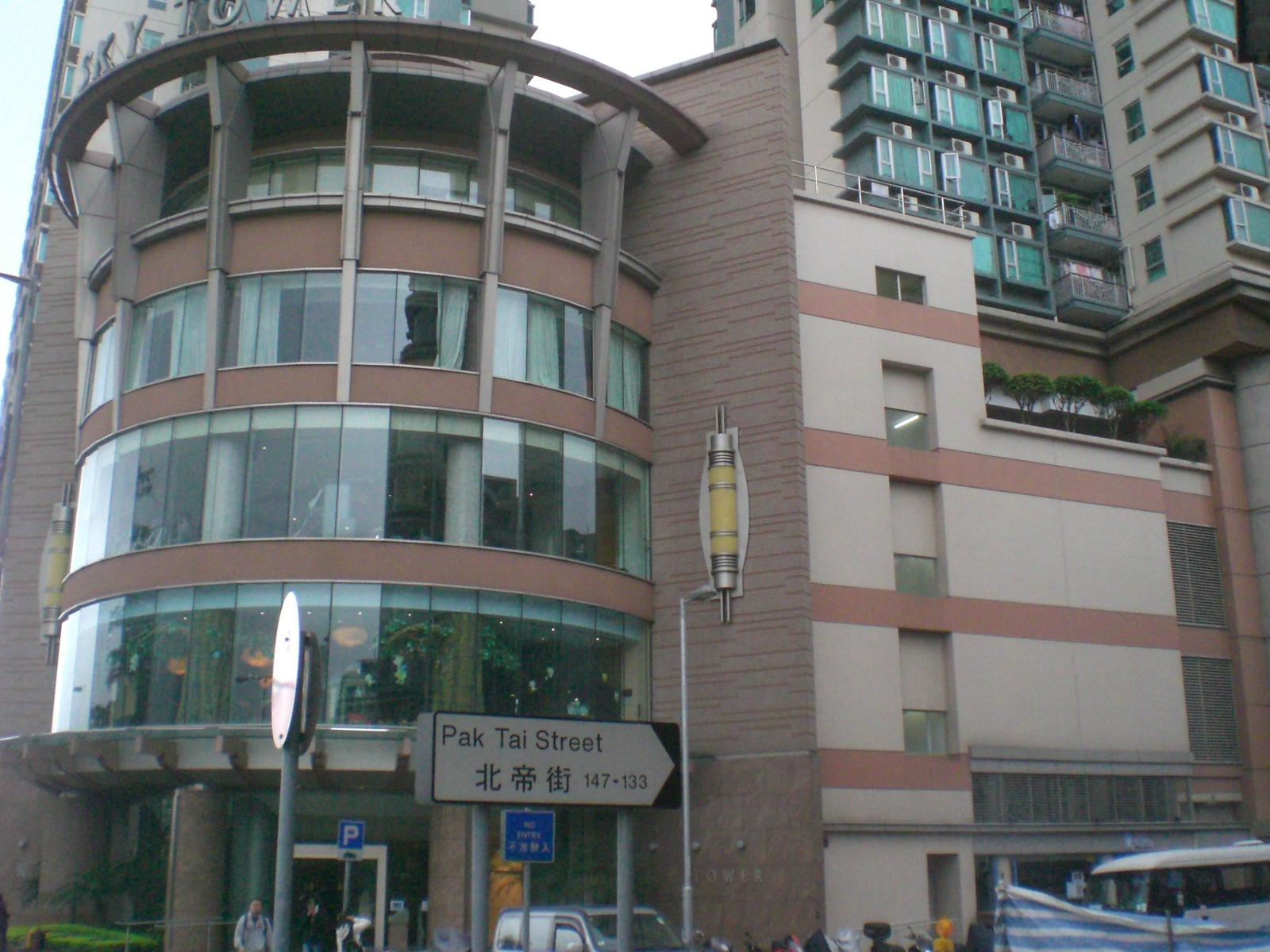 九龍城 傲雲峰 宋王臺道 北帝街